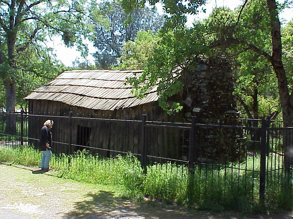 Here is the cabin. It's a little ramshackle these days. For a black and white photo of the cabin from 1947